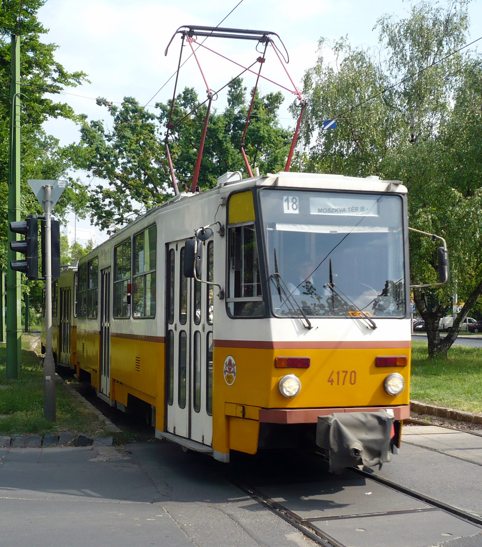 Tram 18 in Budapest.